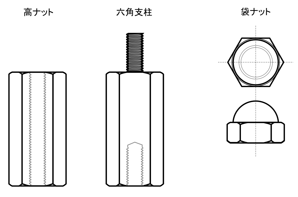 Screw (bolt) 22F-J